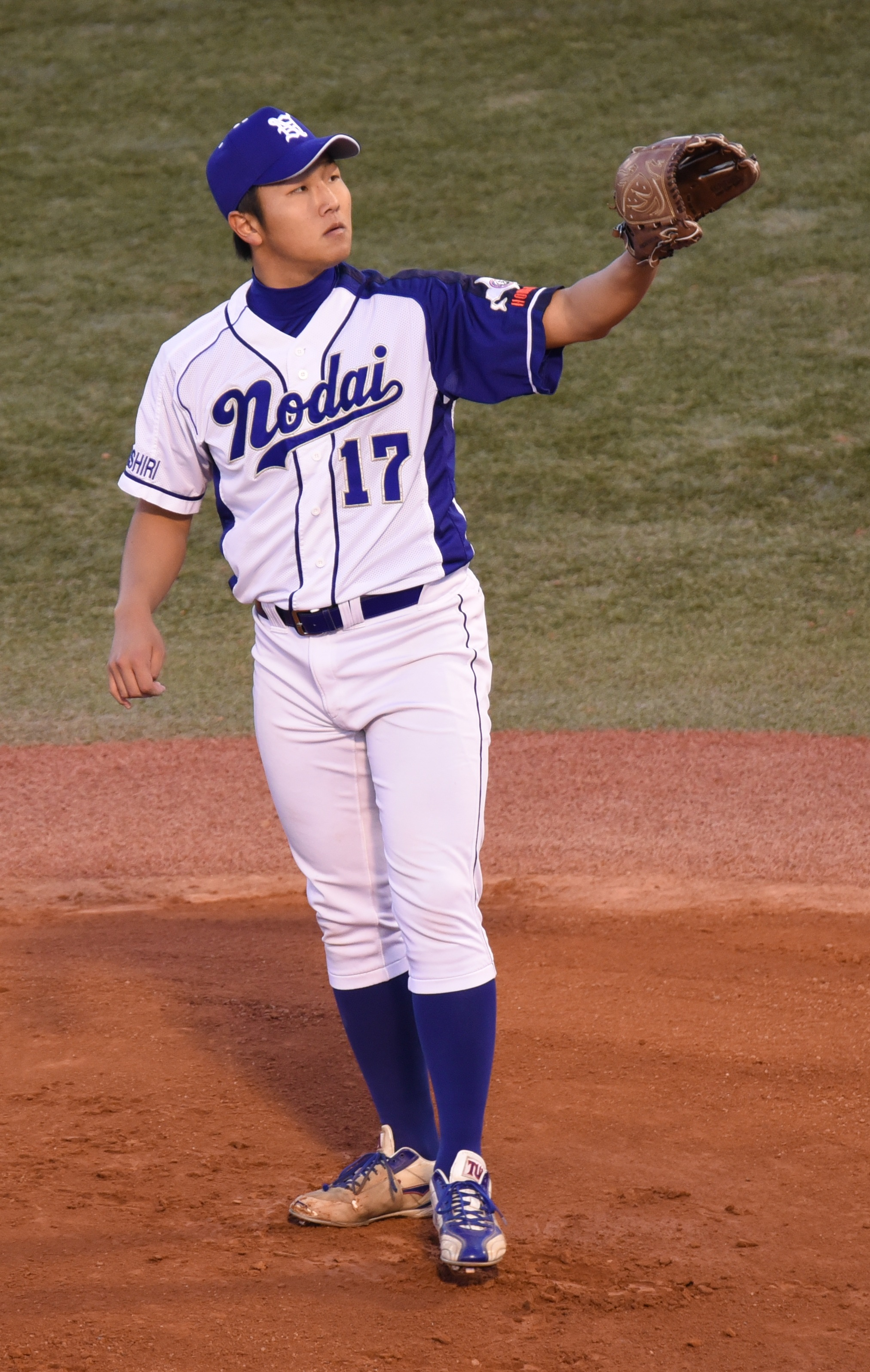 Ren Kazahari, pitcher of the Tokyo University of Agriculture, Hokkaido Okhotsk Baseball Club, at Meiji Jingu Stadium.